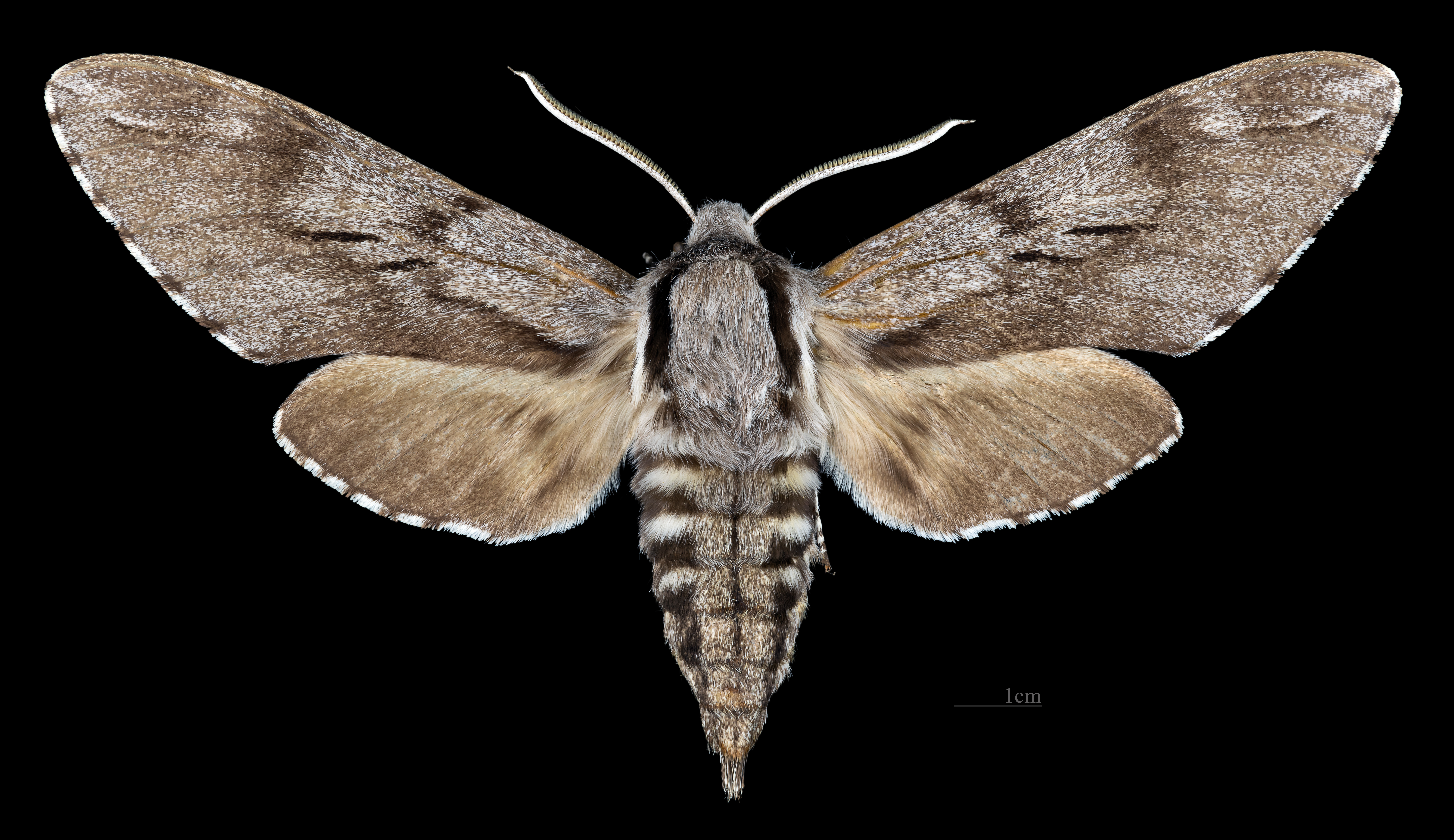 Sphinx pinastri - Dorsal side Collection of the Mathematician Laurent Schwartz